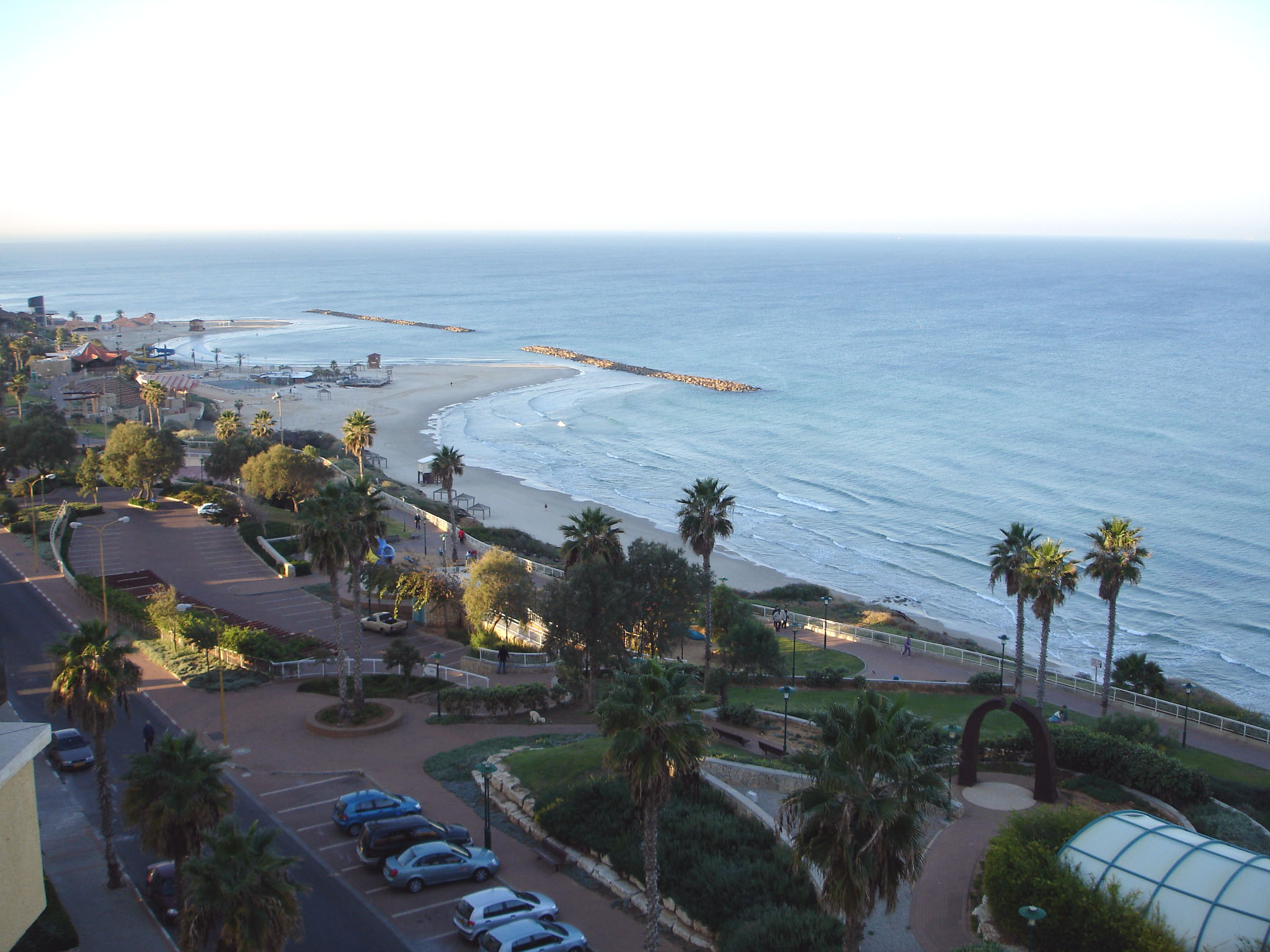 Early morning, overlooking the Mediterranean Sea in Netanya